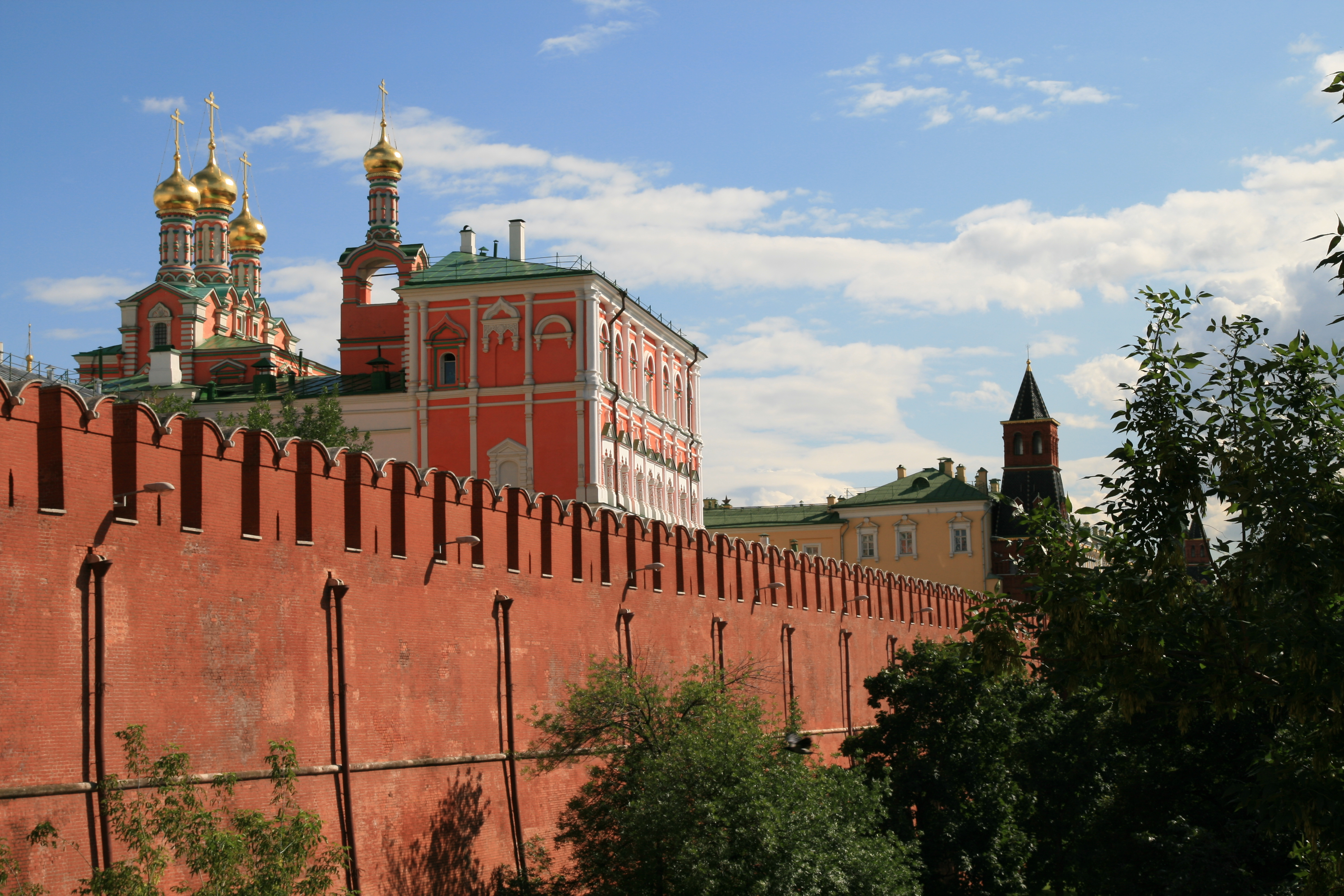 The impressive red colored, outer walls of the Kremlin, as seen from the bridge leading out of the gate at the Troitskaya Tower.